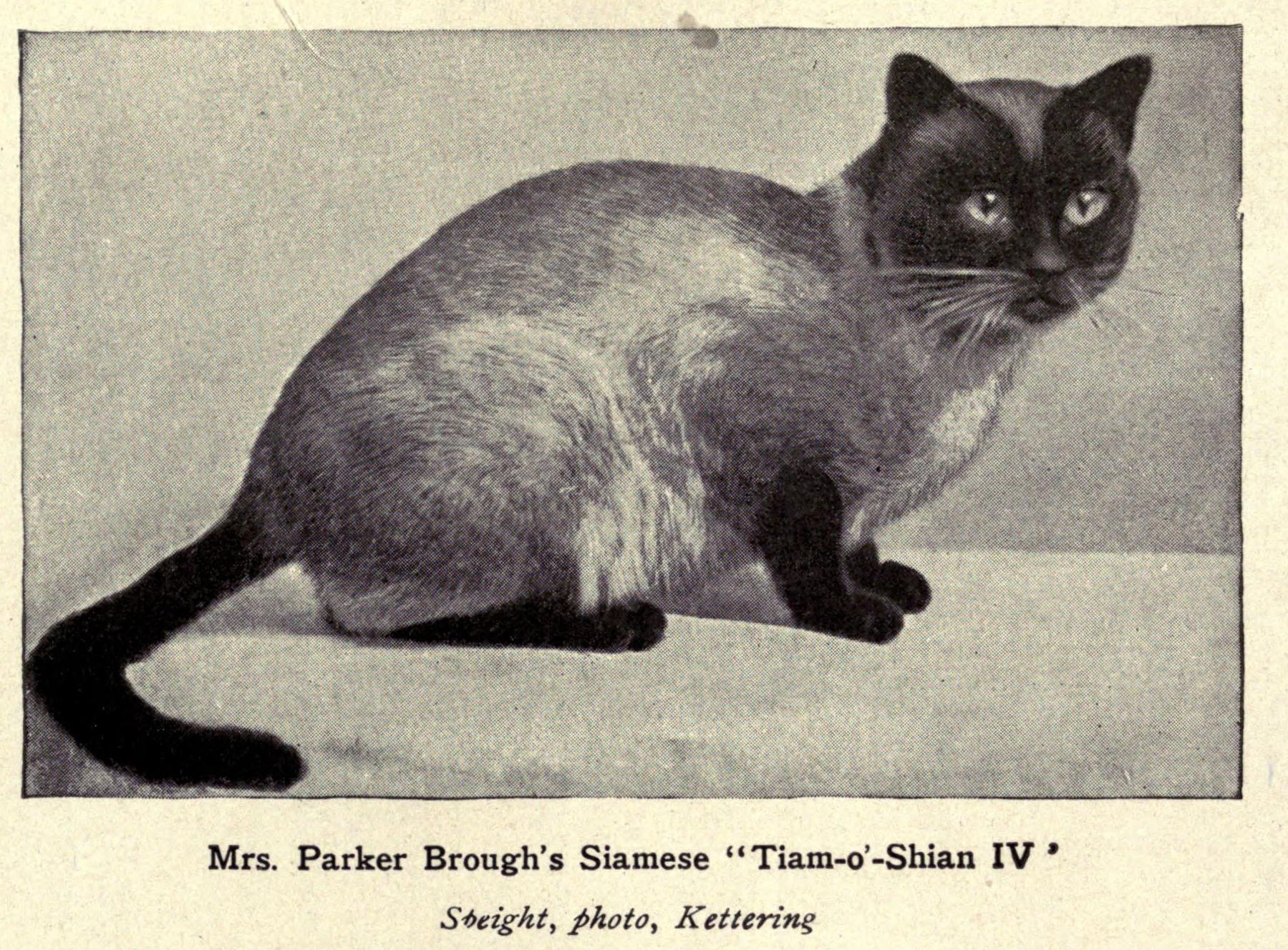 "TIAM-O'-SHIAN IV. is another Siamese of high repute, the property of Mrs. Vyvyan, who bred him ; but Tiam resides with Mrs. Parker Brough whilst his owner is abroad. He is a magnificent type of Siamese, even in colour, with deep seal] points. He comes from Miss Forestier-Walker's celebrated strain ; and amongst his progeny may be mentioned Champion Eve, Suzanne, and Kitya Hara ."